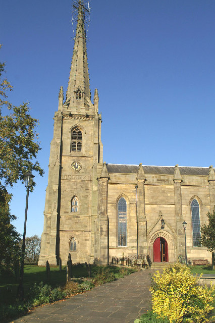 Photograph